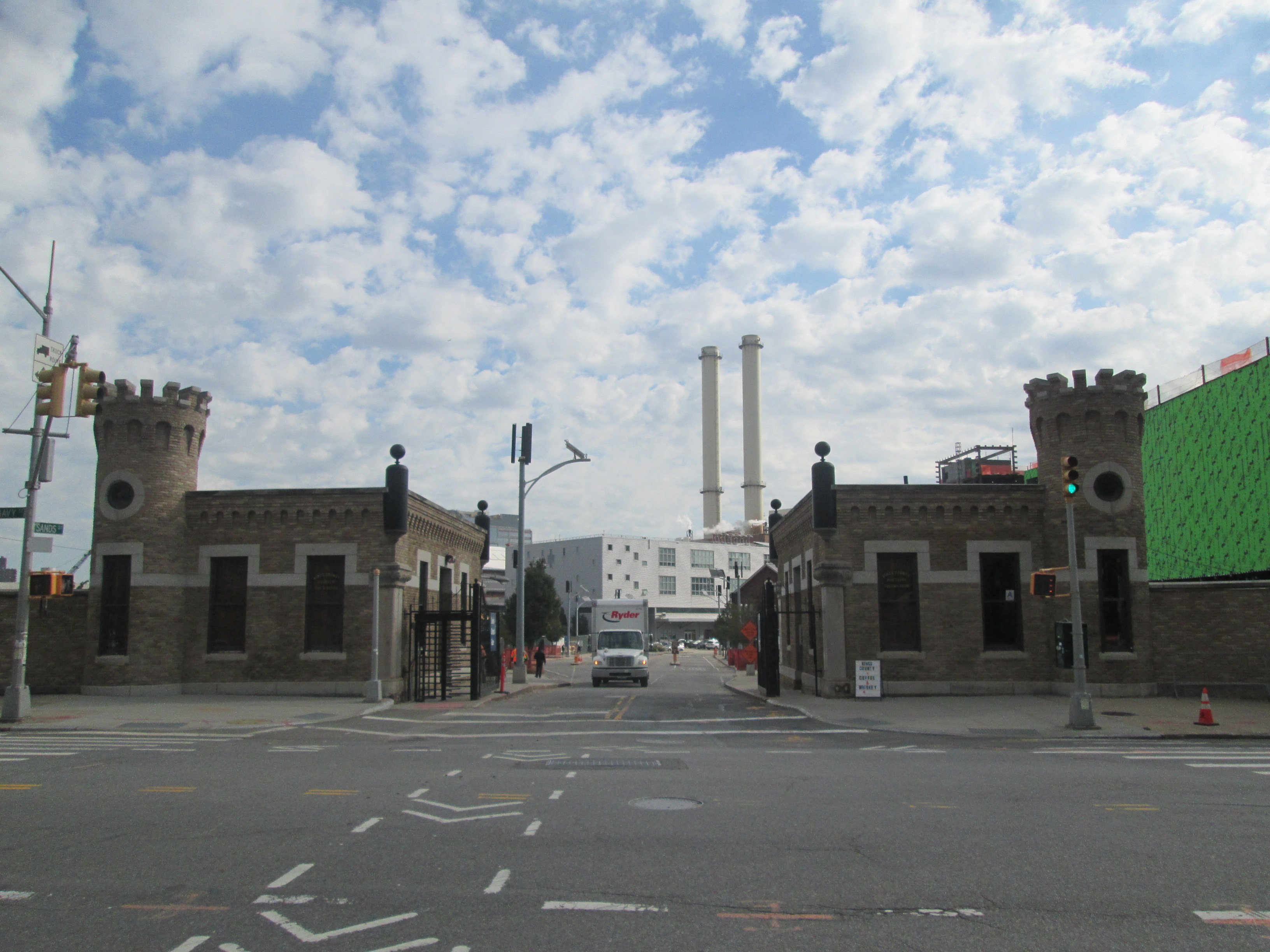 Views of the Brooklyn Navy Yard, October 23, 2018 - Sands Street Gate